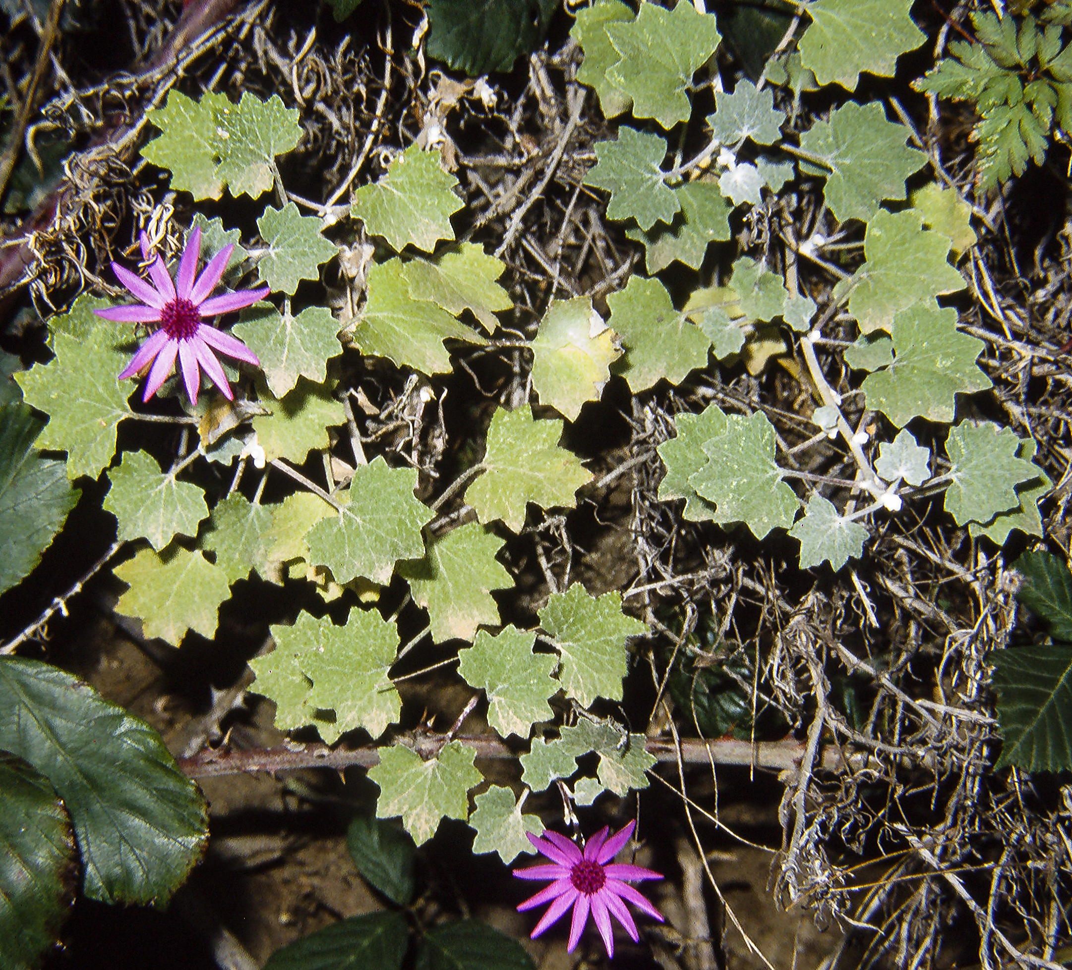 Pericallis lanata, in habitat, Masca, Tenerife; converted from an original slide photograph taken on 7 April 1989 Date